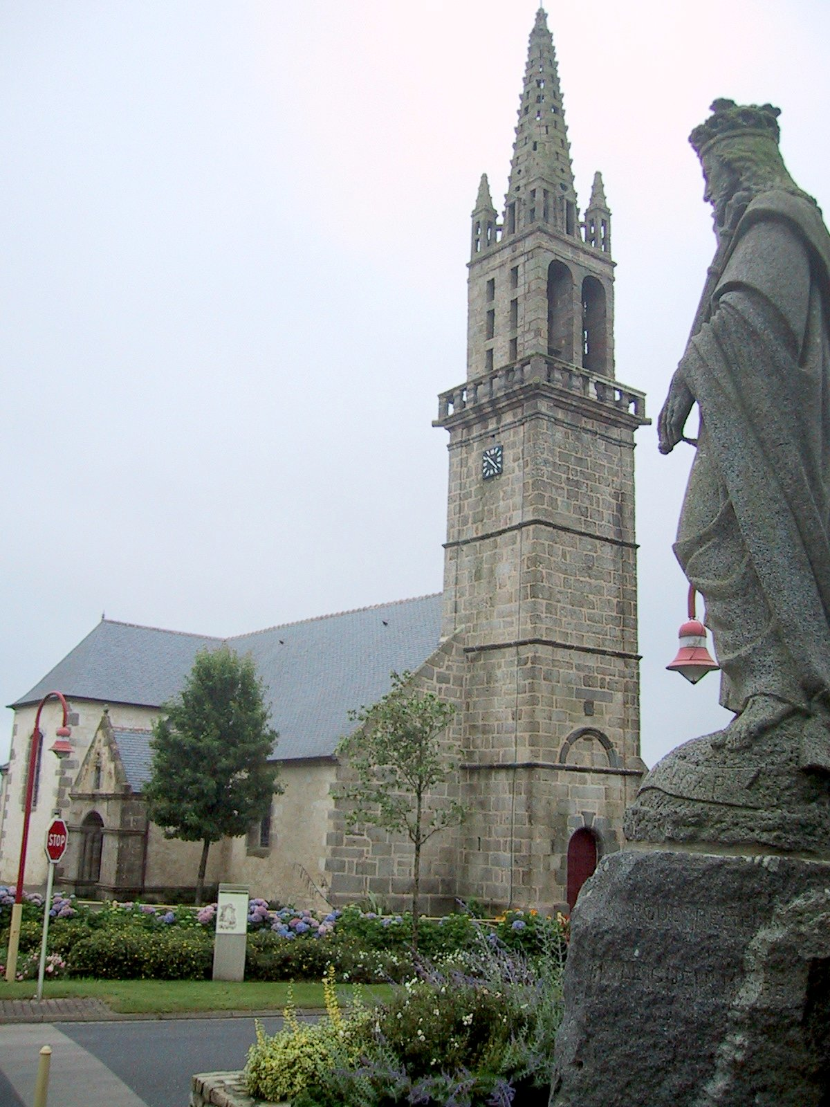 The Church of Kersaint-Plabennec is dedicated to St. Stephen (Saint Étienne).